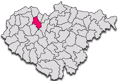 Map Salaj County Romania